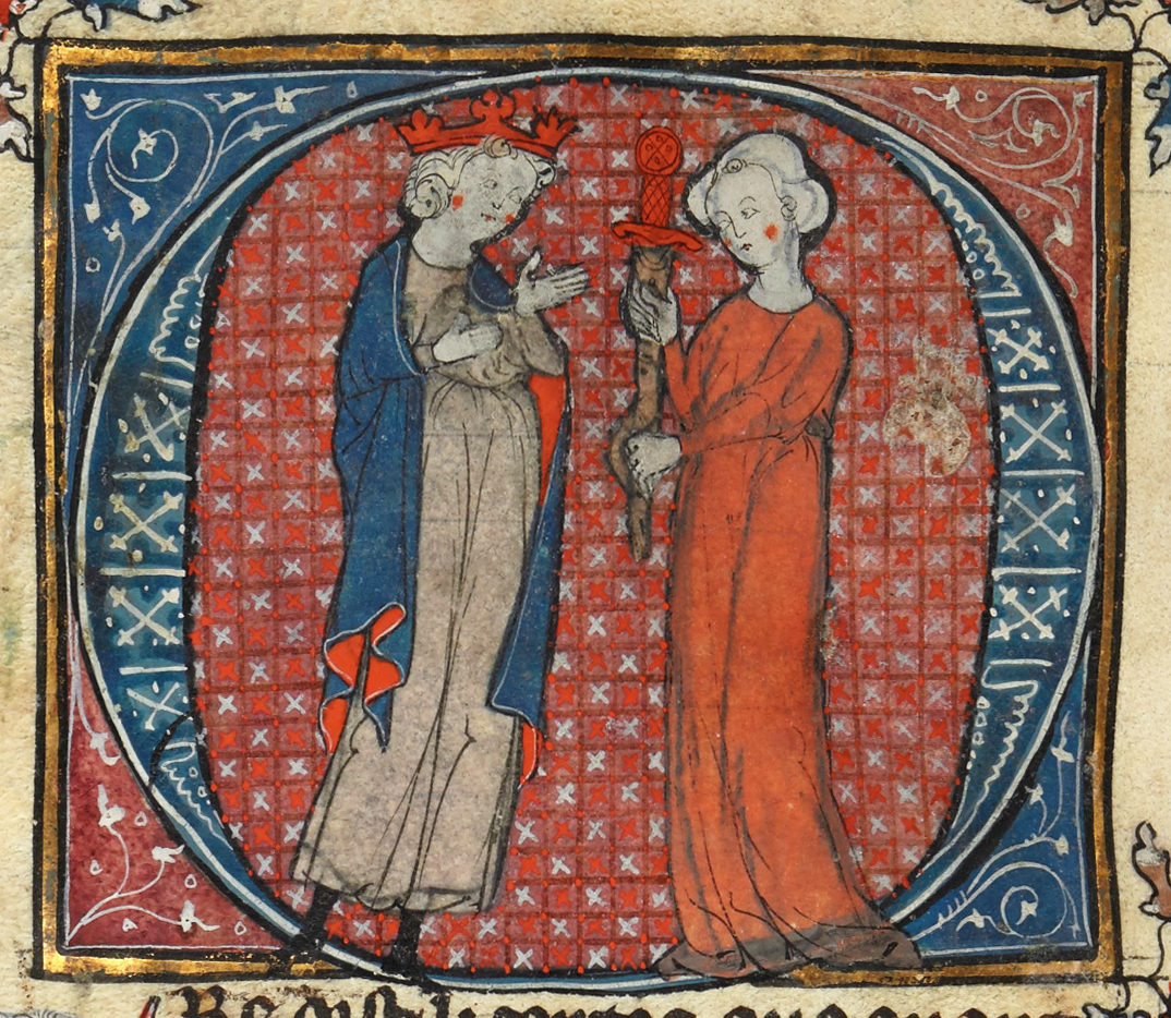 An illustration from the British Library copy of Suite de Merlin, also known as the Post-Vulgate suite, one of two surviving copies of the text that is the source for part of Malory's Morte Arthu, attributed to Robert de Boron but believed to have been compiled by a later author.